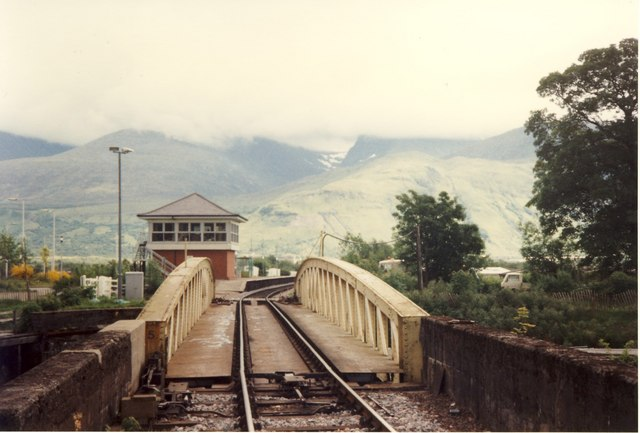 Banavie - railway swing bridge and signalbox The signalbox is the control point by radio signalling for the entire West Highland lines system north of Craigendoran Junction, near Helensburgh.